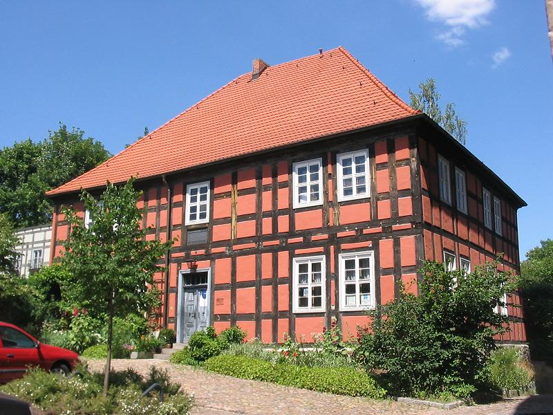 Historic center Belzig, Reißiger-Haus, birthplace of the composer Carl Gottlieb Reißiger (1798-1859) . Belzig is the central town of the district Potsdam-Mittelmark in the state Brandenburg of Germany. Belzig appertains to the natural preserve Naturpark Hoher Fläming.